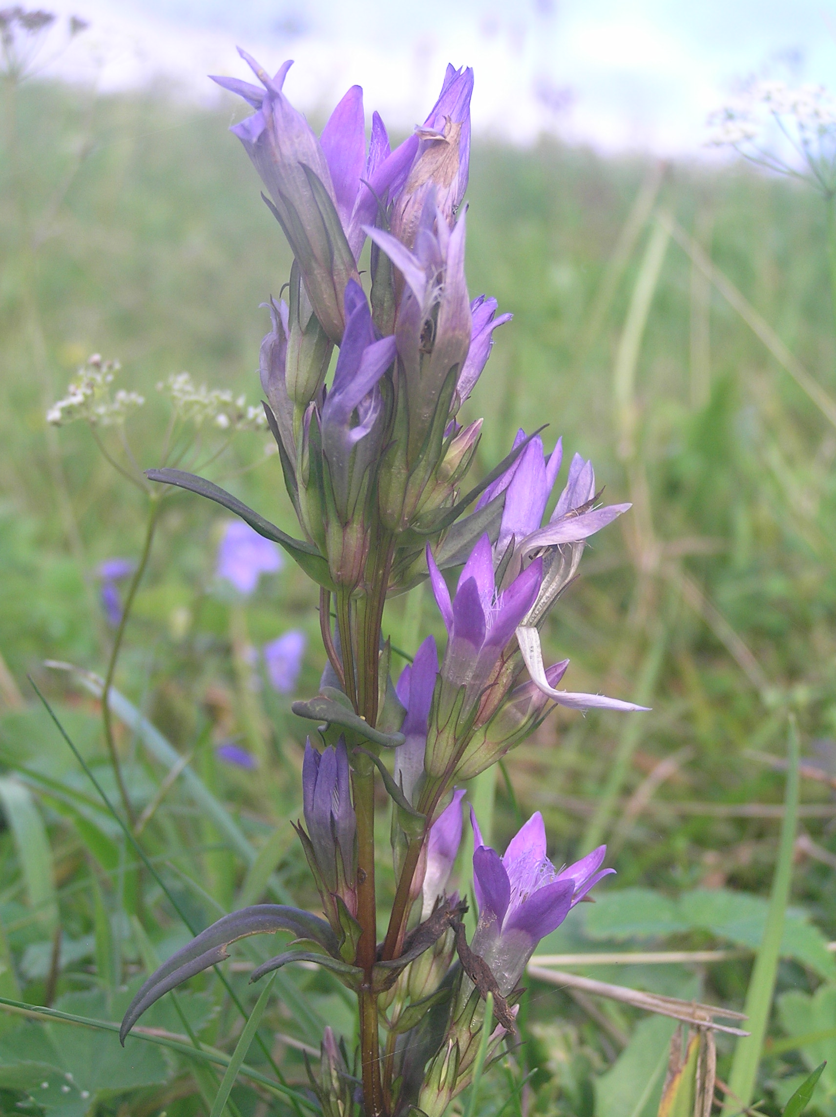 Gentianella praecox subsp. bohemica, PP U Žlíbku near Protivanov, Czech Republic